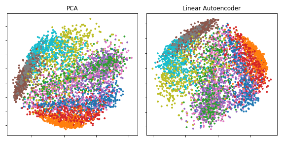 Plot of the first two Principal Components (left) and the two hidden units' values of a Linear Autoencoder (Right) applied to the Fashion MNIST dataset. The two models being both linear learn to span the same subspace.